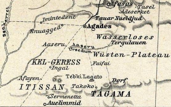 Ingal in Adolf Stielers Handatlas, 1891.